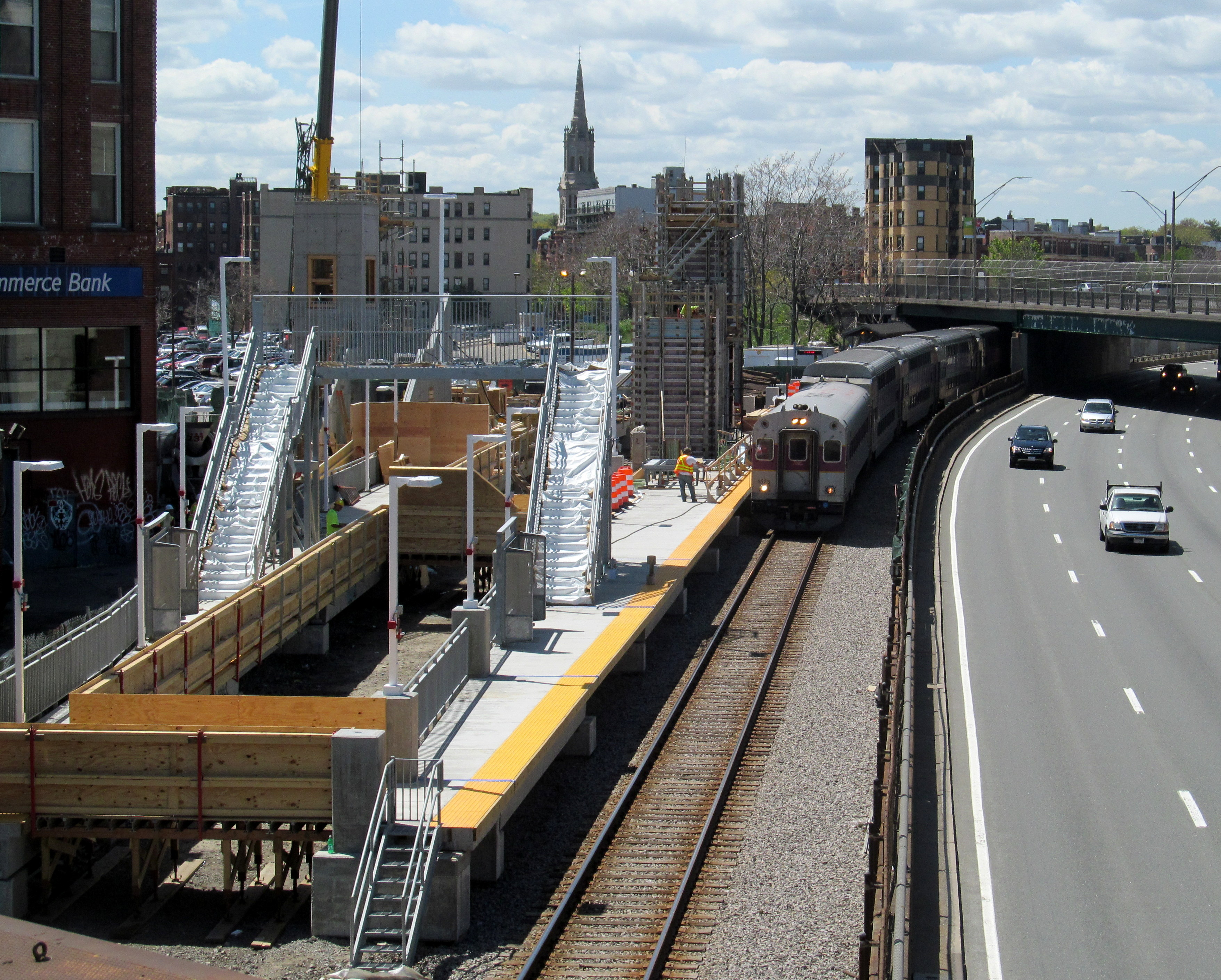 An inbound train passes the under-construction Yawkey station in May 2013